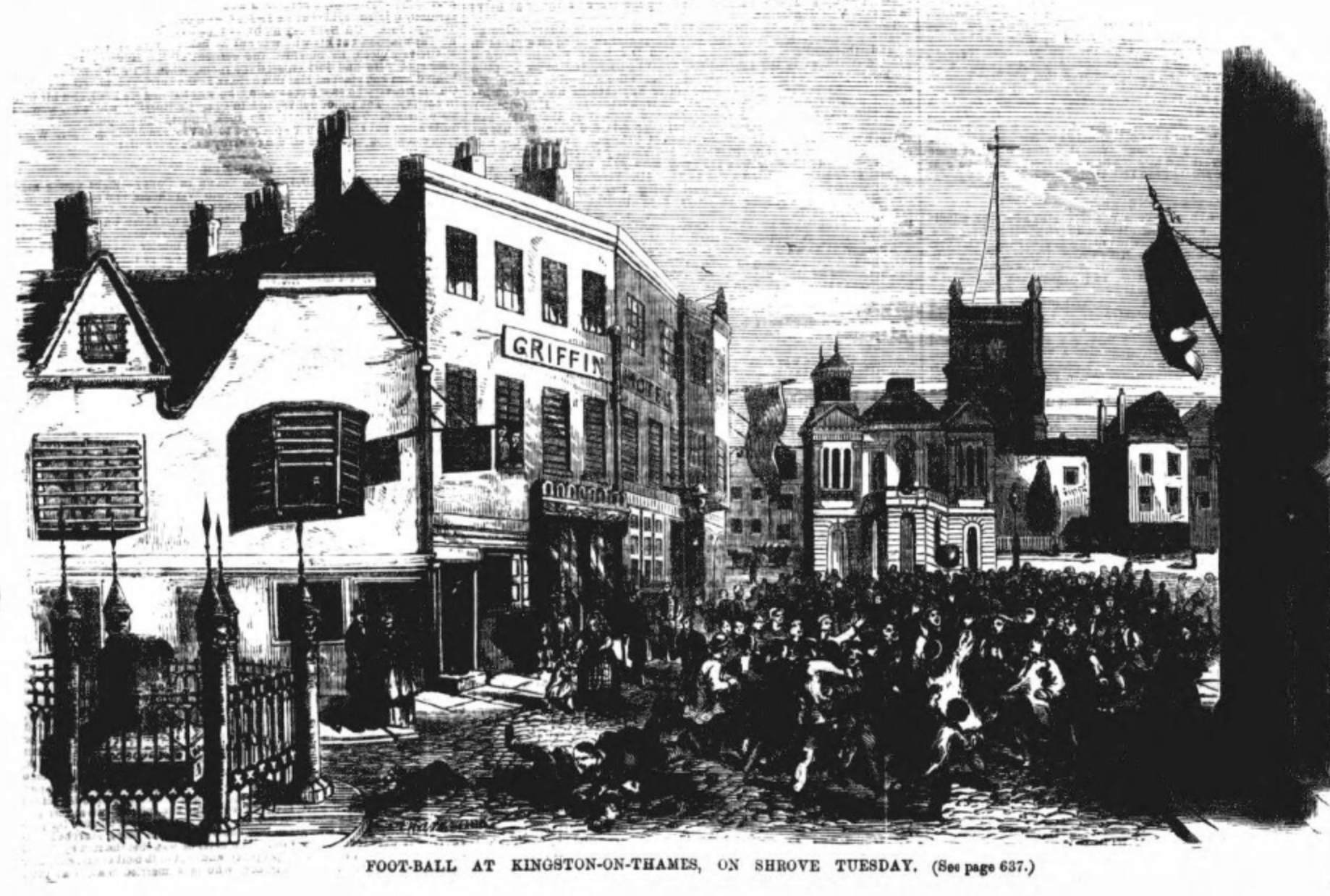 Illustration of Shrove Tuesday Football in Kingston Upon Thames, from a newspaper. The accompanying article states "Here the ball has received the first kick at the market-place through time immemorable".